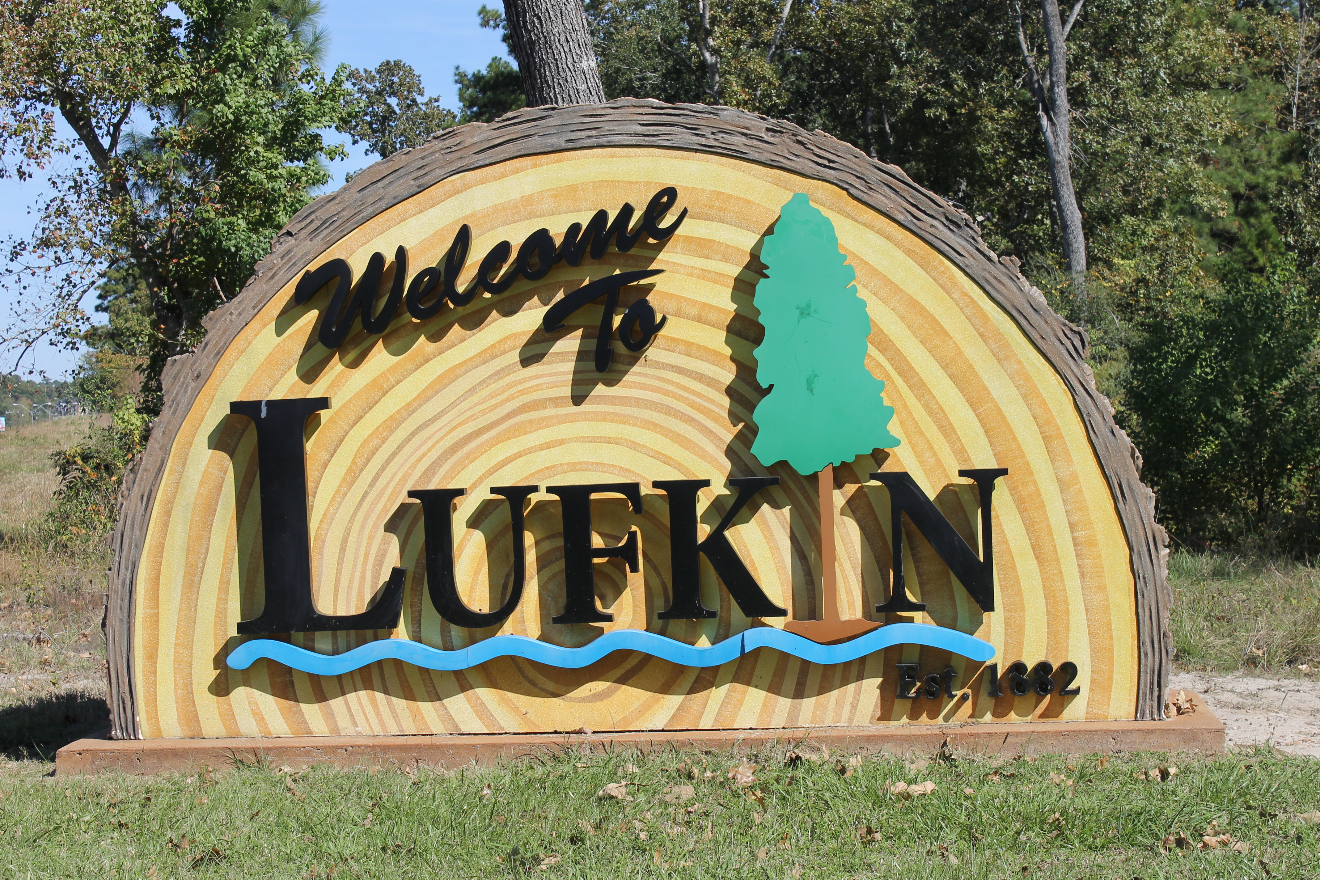 Lufkin, TX, welcome sign